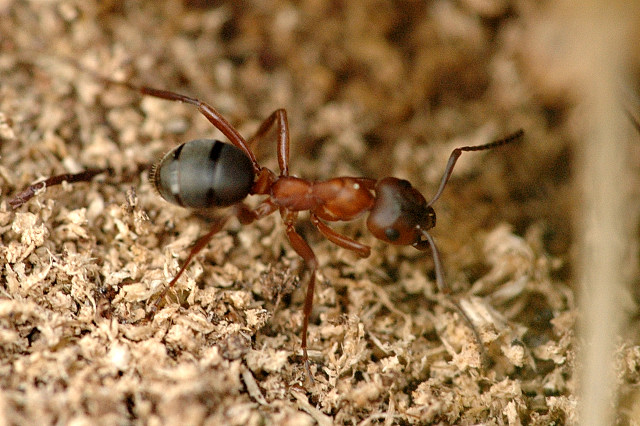 Formica sanguinea from Commanster, Belgian High Ardennes .